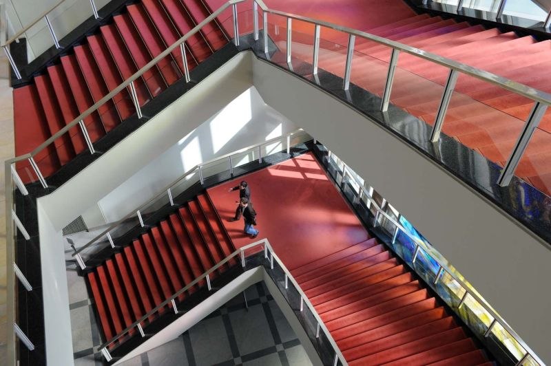 Staircase located in the main hall at the entrance to Staatsratsgebäude, which was built in the years 1962 to 1964 to house the State Council of the GDR